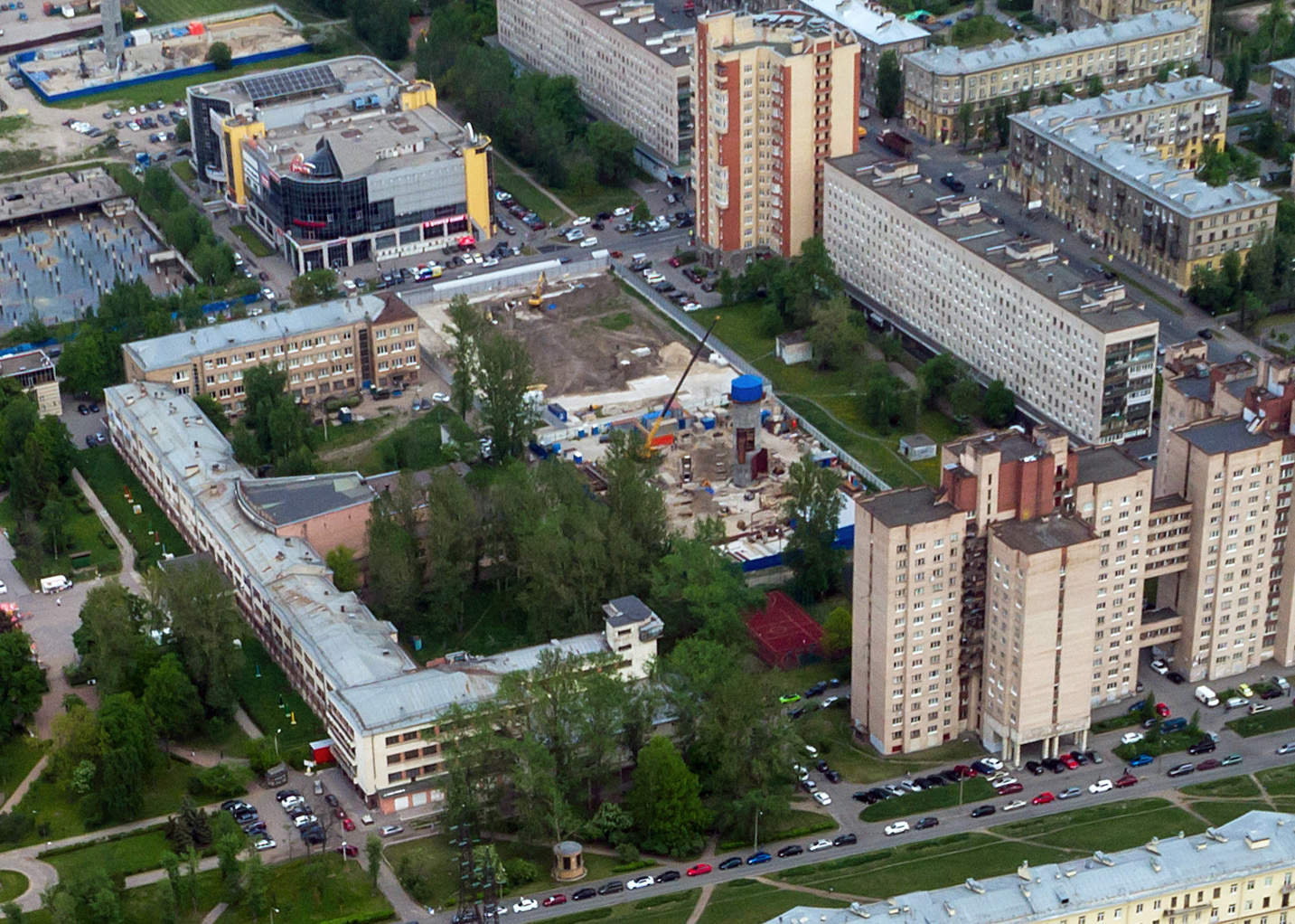 Aerial view of the construction site of Putilovskaya subway station